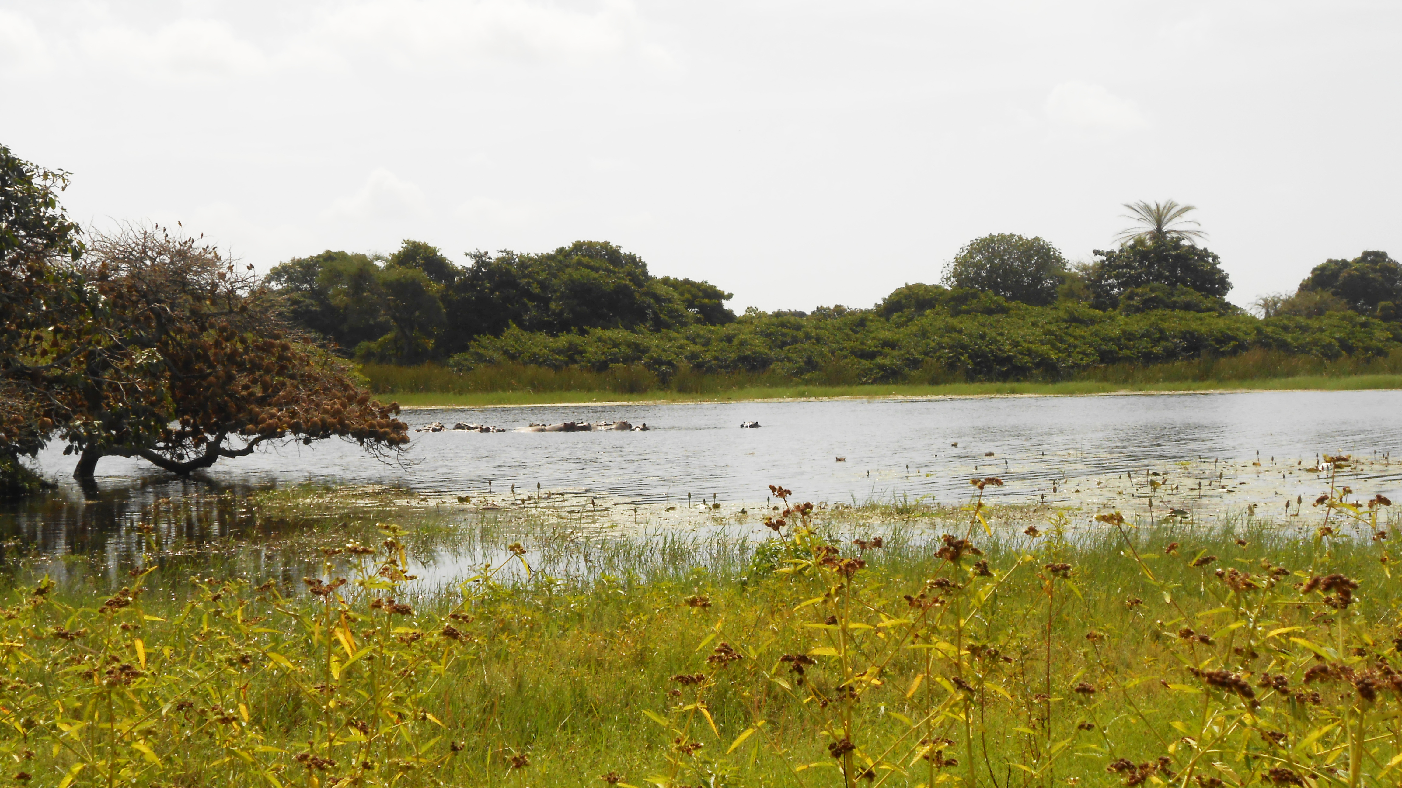 Lake on the island of Orango with rare hippopotamuses living both in sweet water and the sea.